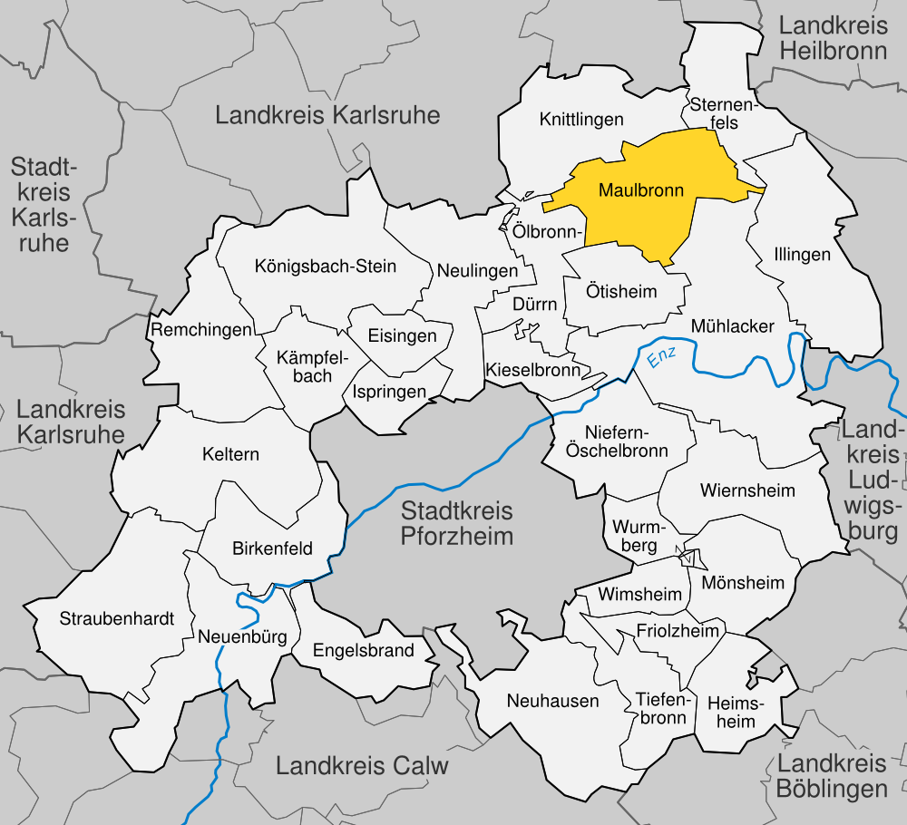 position of Maulbronn within distict of Enzkreis, Baden-Württemberg, Germany